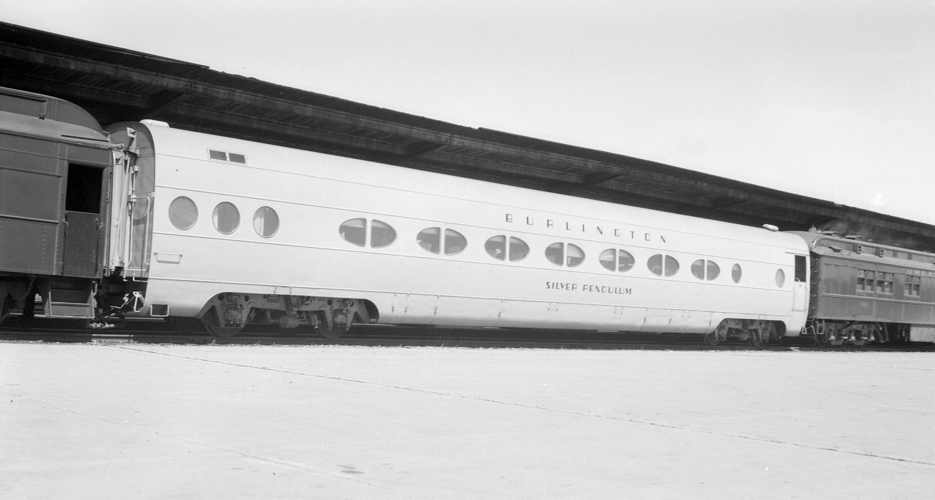 CBQ No. 6000, one of three experimental Pendulum cars, at Vancouver in the 1940s.